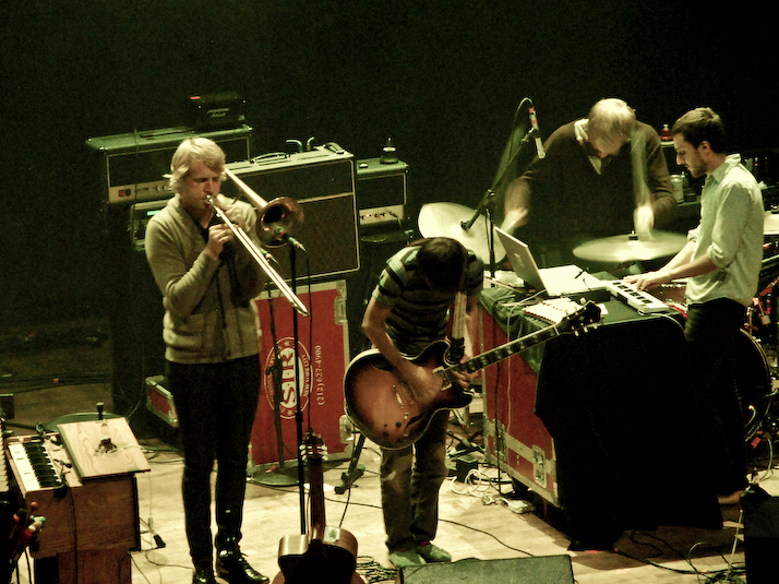 The band "Parachutes" in Portland, before a show of another band Sigur Rós